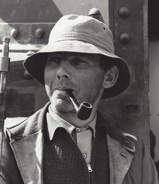 Film director Zoltan Korda on the set of Sahara - publicity still (cropped)